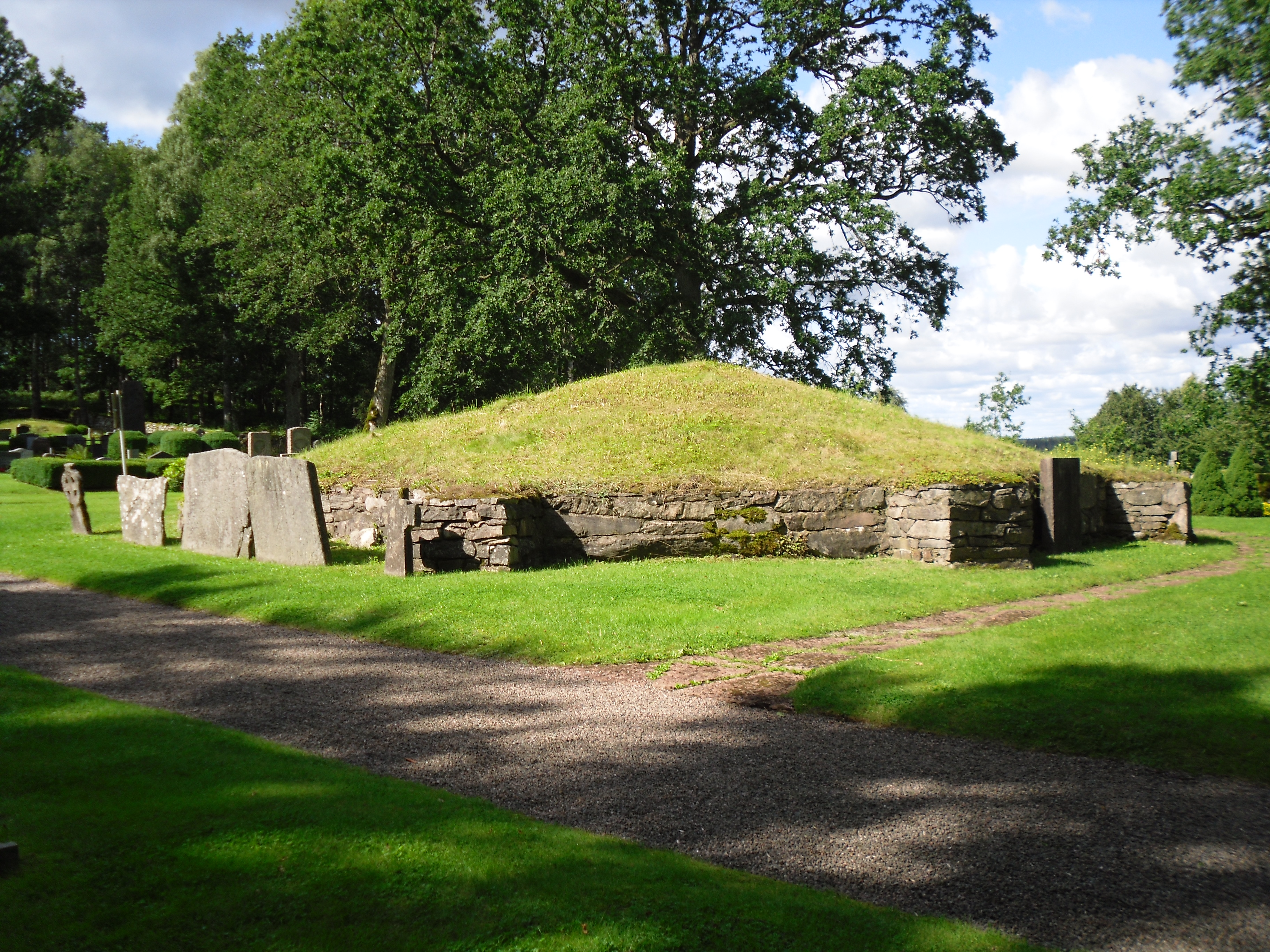 Erska Church, Graveyard, Sweden.